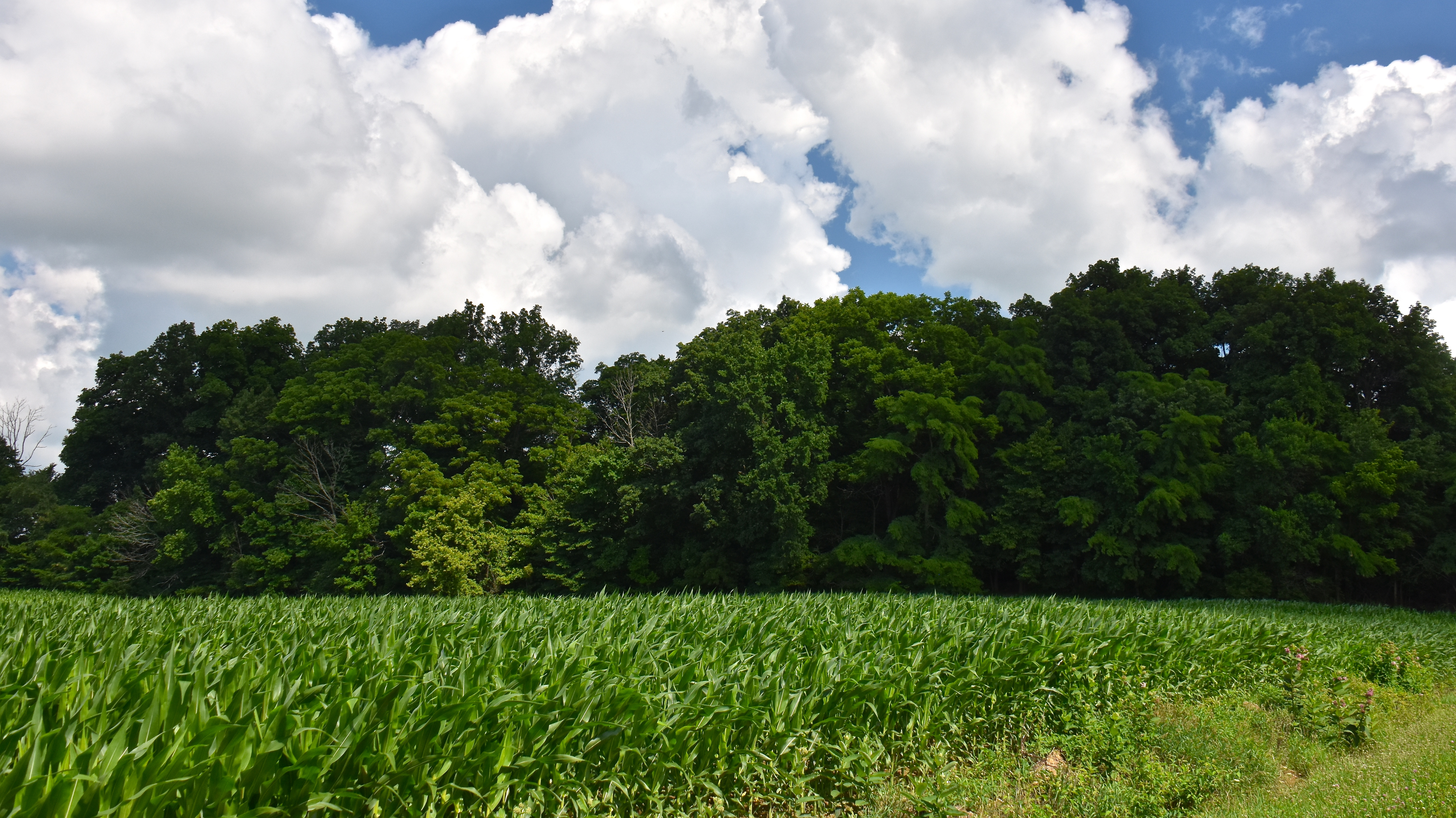 Hoosier Hill is the highest point in Indiana with an elevation of 1257 feet. The summit area is in the grove beyond the cornfield.